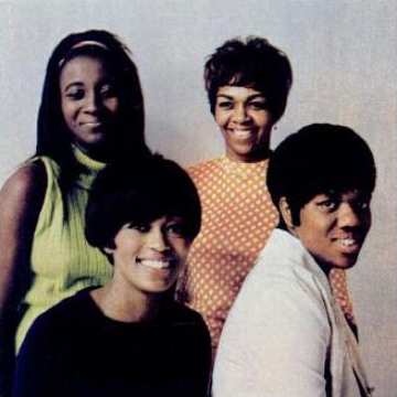 Trade ad for Sweet Inspirations' single "Why (Am I Treated so Bad)".To better adapt it to his respective Wikipedia article, the ad was cropped and cleaned in a graphics editing program. The original can be viewed at the source below.